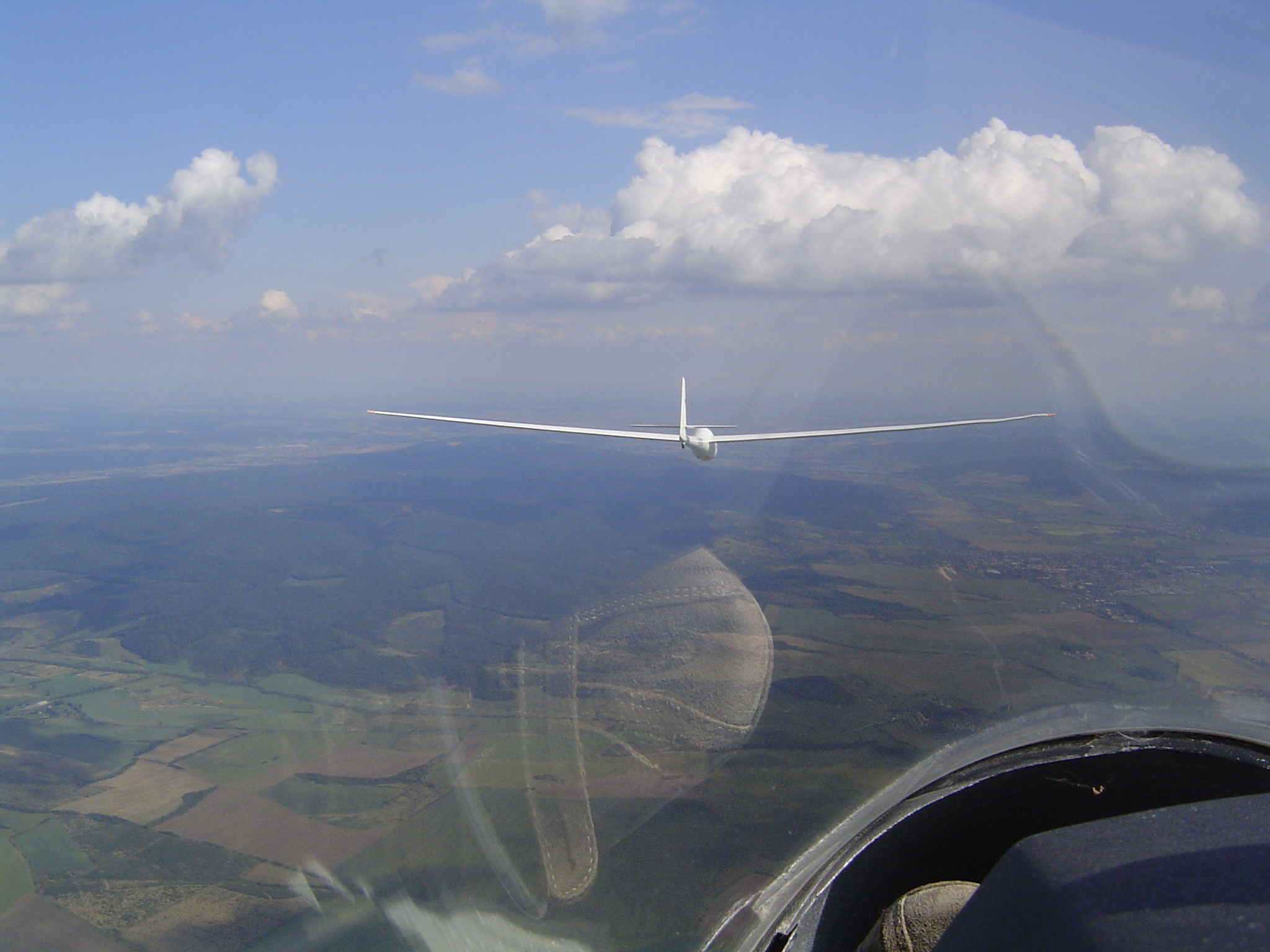 Cirrus18m glider on a cross country flight